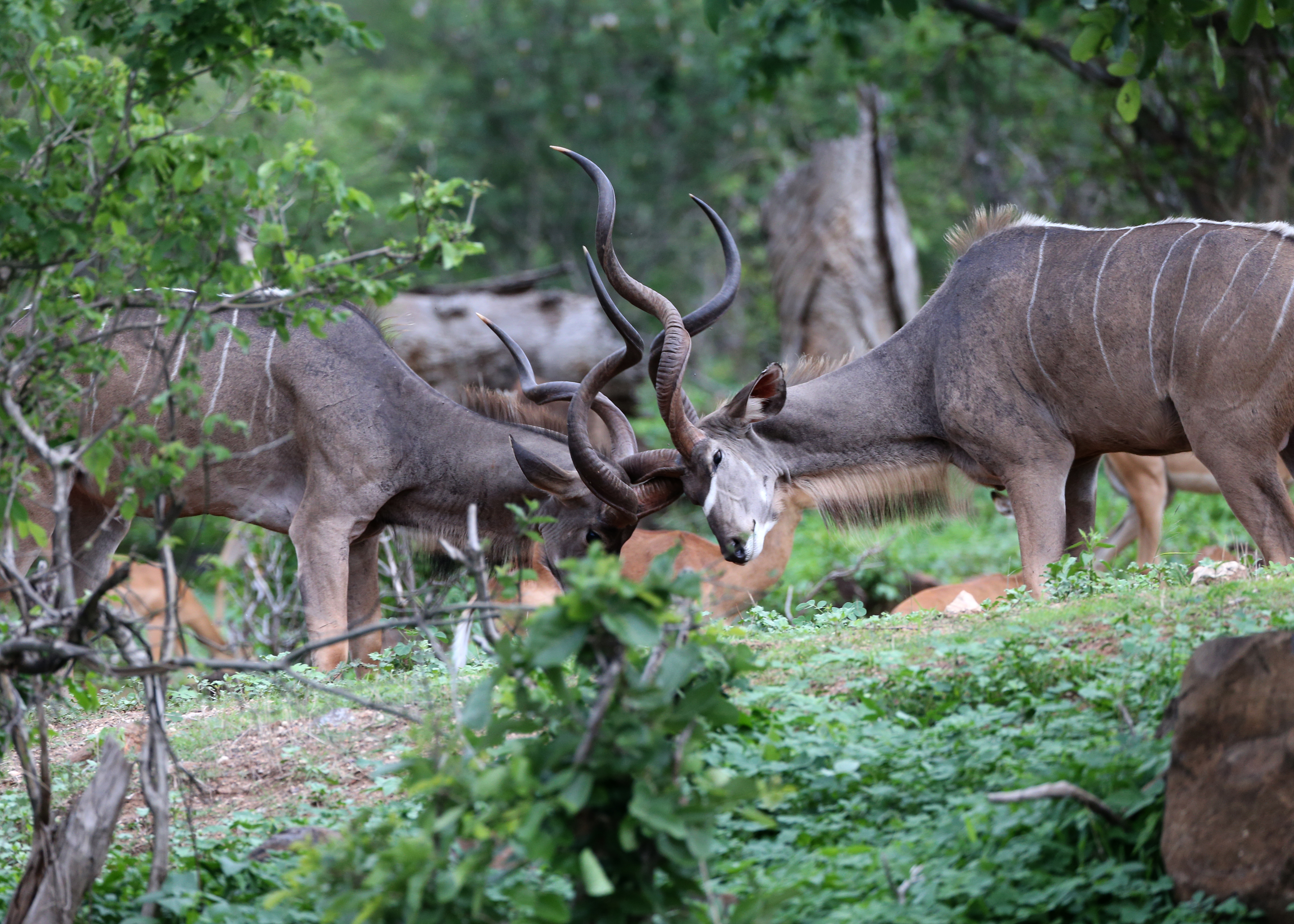 kudu